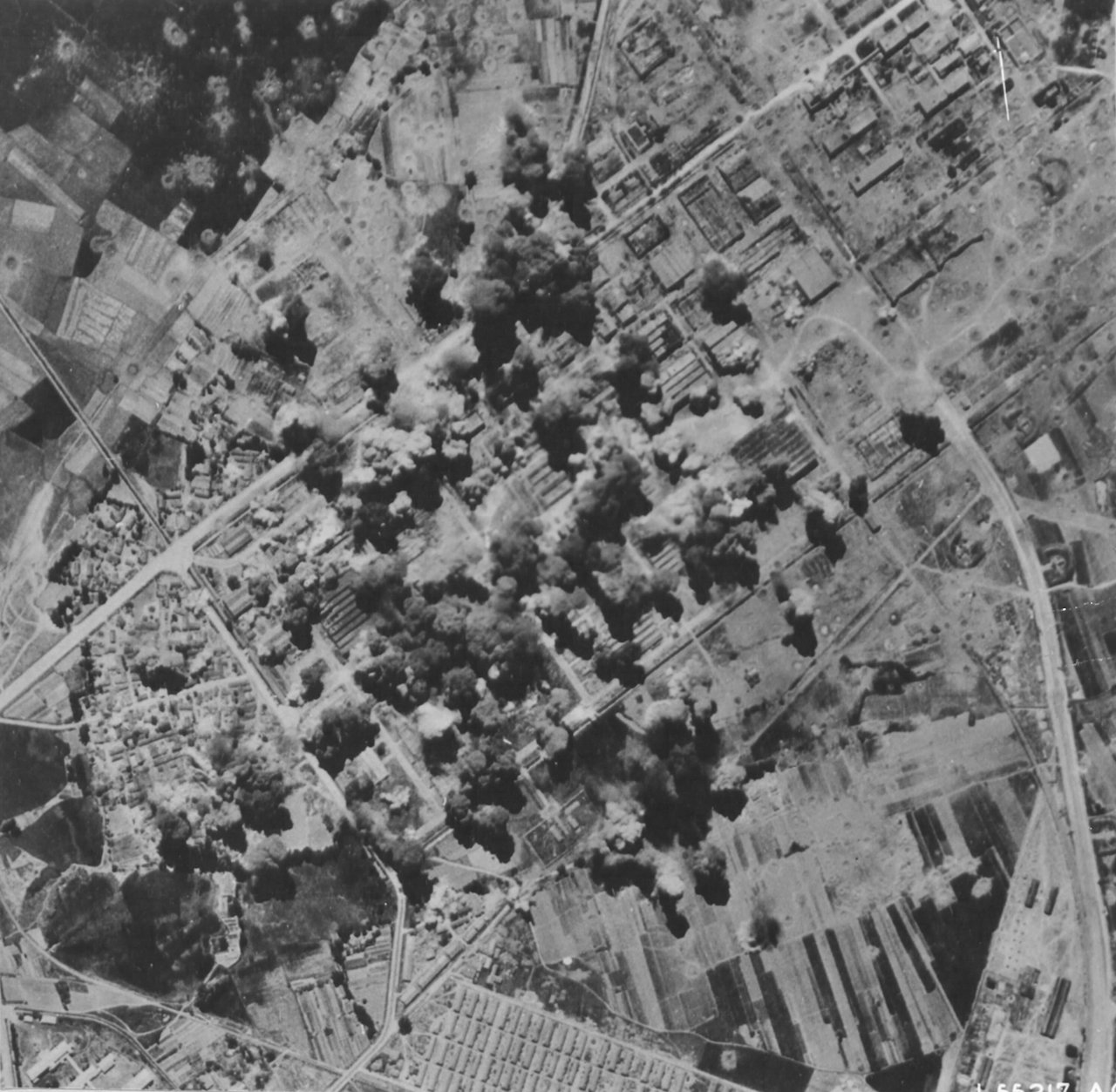 A photo record of the bombardment of Okayama aircraft plant, Formosa on 1944-10-16 (ref: 空襲福爾摩沙; isbn: 978-957-801-757-3)